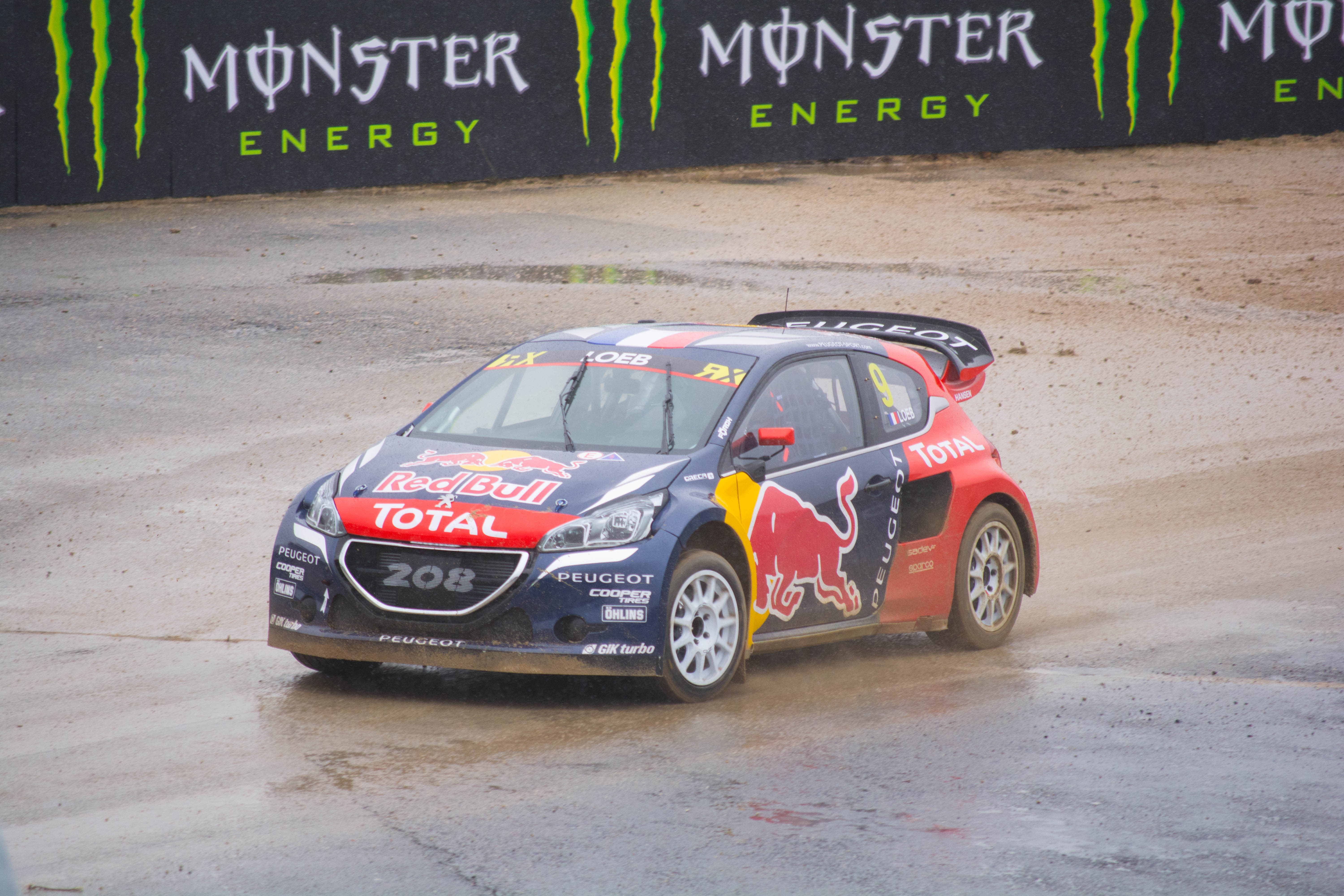 Portugal Montalegre 2016